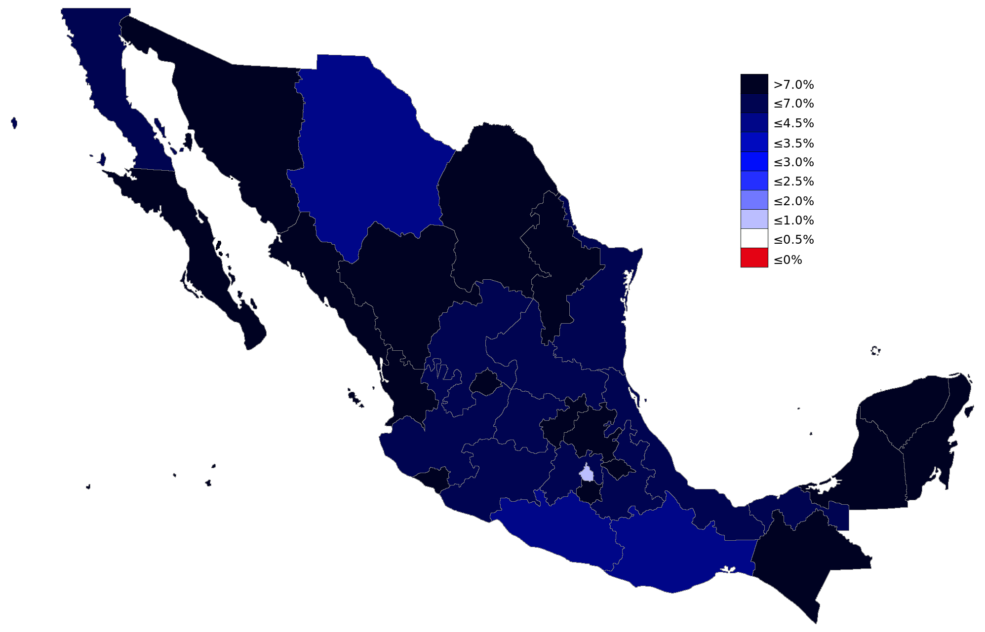 Mexican states by population growth rate 2010-2011